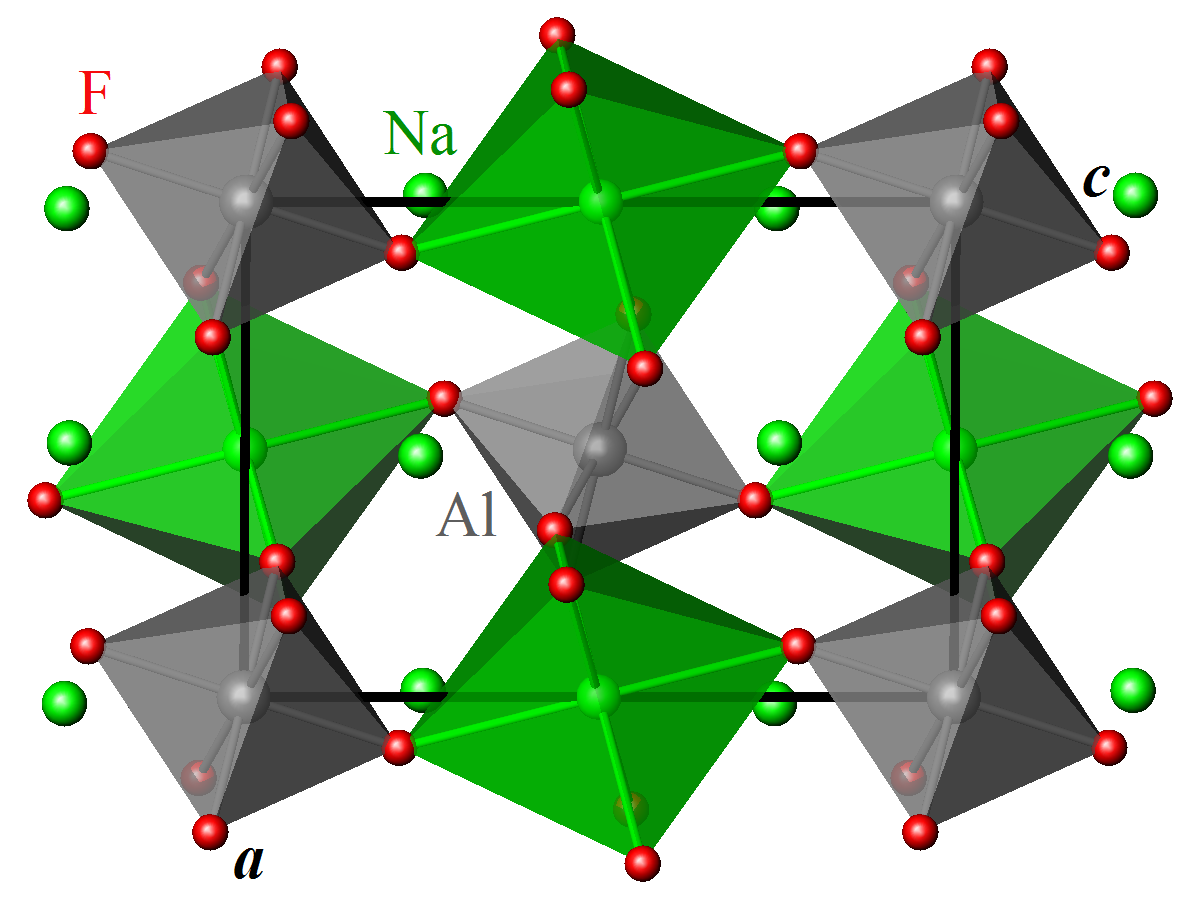 Polyhedral representation of the room temperature crystal structure of cryolite, Na3AlF6, space group P21/n (No 14, P21/c with different cell setting), projected onto the (a,c) plane. Gray: aluminium atoms, green: sodium atoms, red: fluorine atoms.